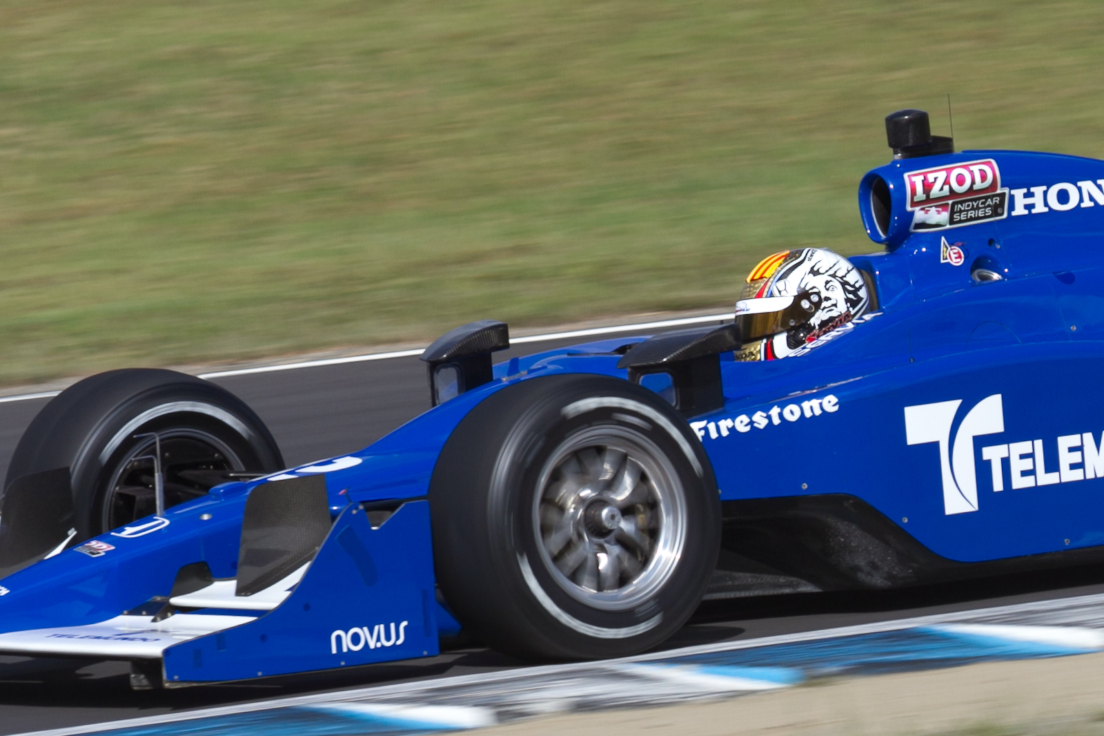 IndyCar Series 2011 Rd.15 Indy Japan 300: Oriol Servià (Newman/Haas Racing)